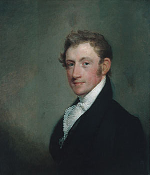 David Sears II (1787-1871) was a prominent 19th century Boston philanthropist, merchant and landowner.